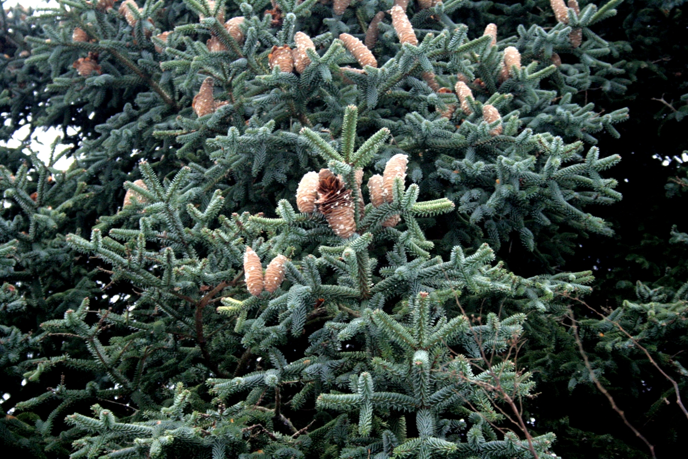 Cones with beginning desintegration at an Abies pinsapo, grown in Denmark.